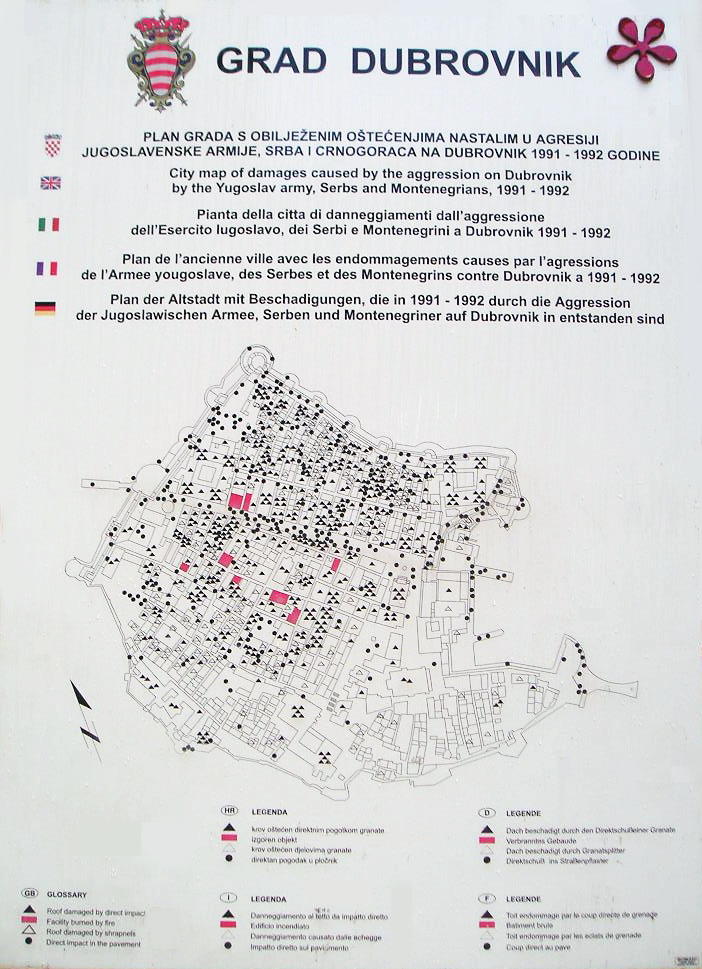 Photograph of a publicly displayed picture in Dubrovnik, created by the city authorities.